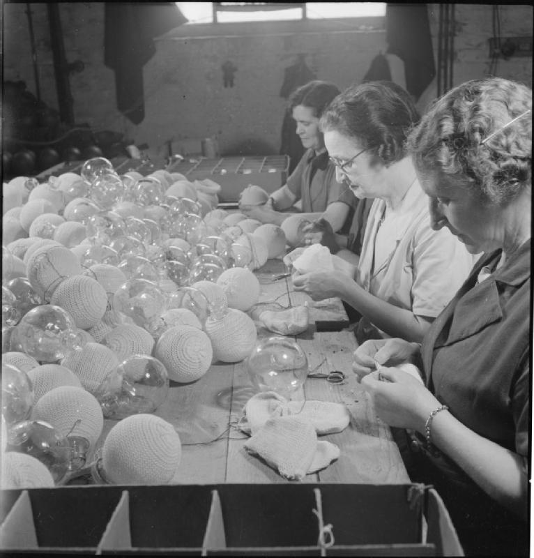 Sticky Bomb- the Production of the No 74 Grenade in Britain, 1943 Women war workers fit knitted woollen jackets onto the glass flasks of sticky bombs at a factory workshop, somewhere in Britain. The women, including Mrs B Colman (nearest to the camera) and Miss H Brearley (centre), fasten the jackets by means of a drawstring around the neck of the flask. The woollen jackets will soon be coated with adhesive to enable them to stick to their target before detonation.